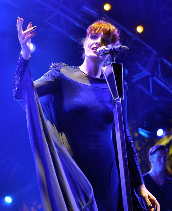 Florence and the Machine, Coachella 2012, Day three, Sunday, April 22, 2012